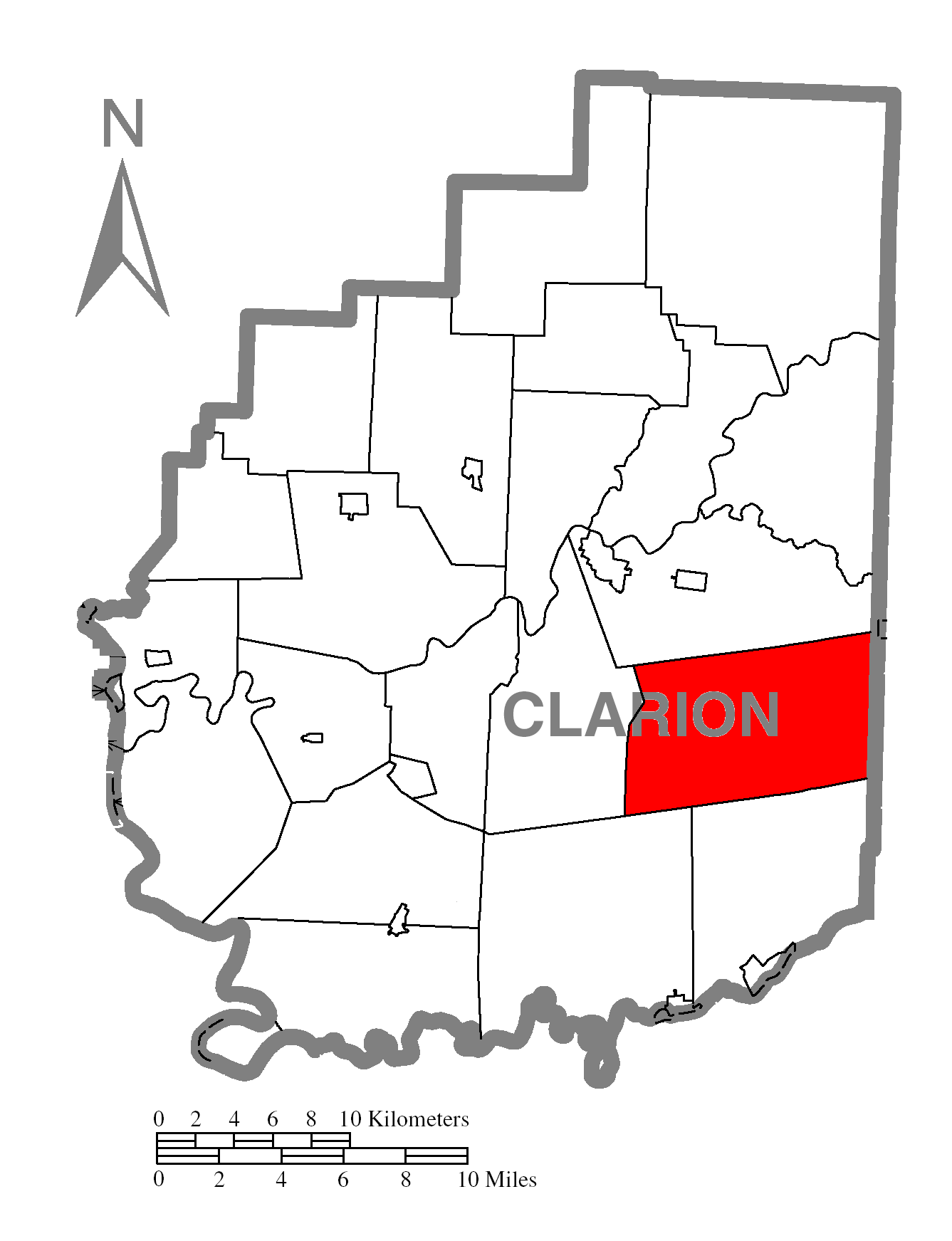 A map of Clarion County showing Limestone Township, Pennsylvania (alternate) highlighted on the map.